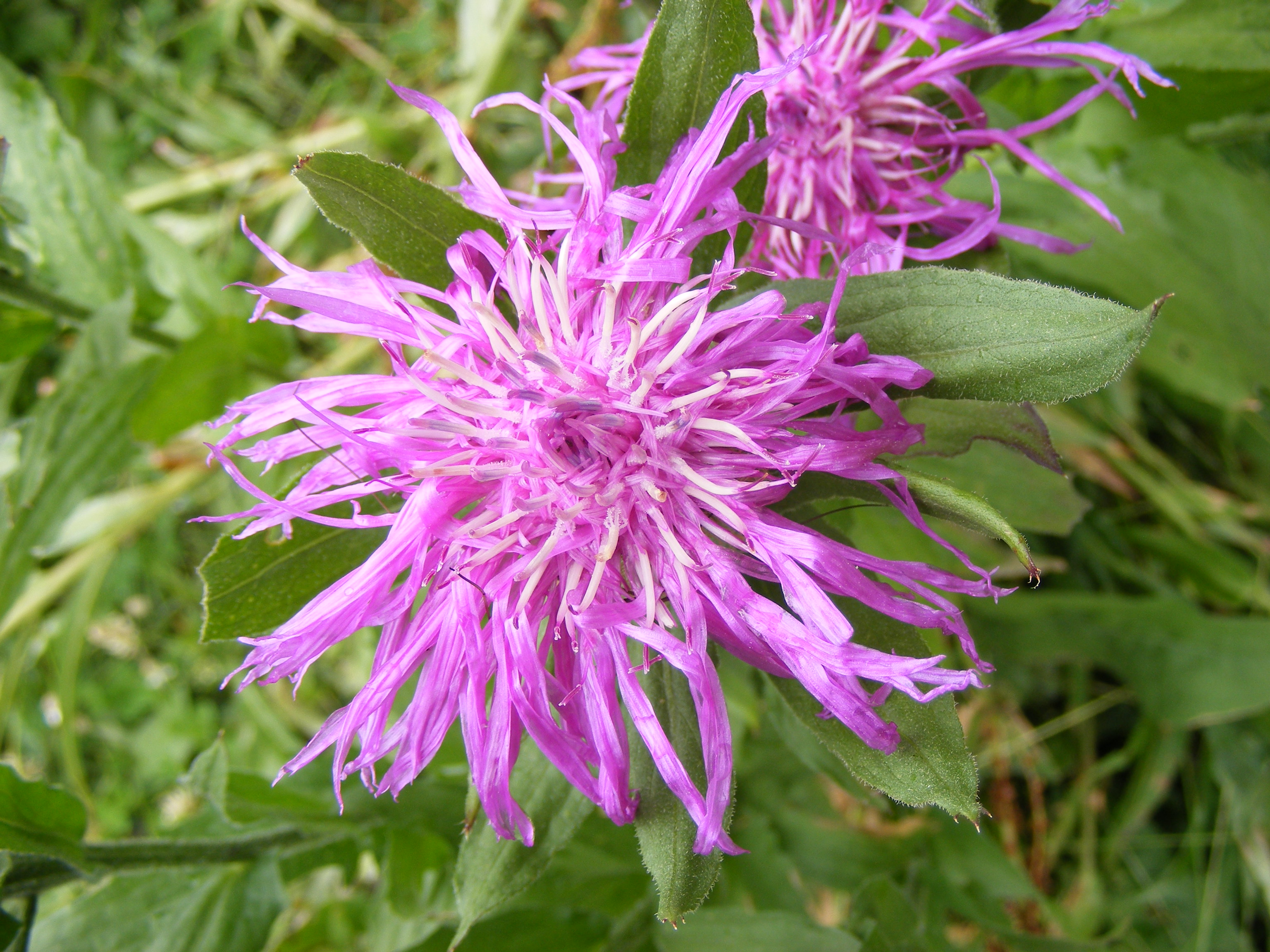 This photo shows Centaurea pseudophrygia flowerhead